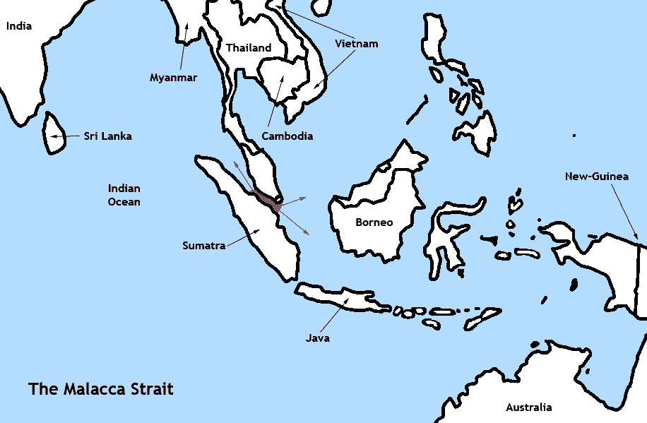 The Malacca Strait